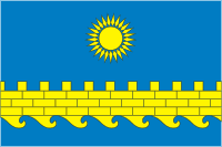 Anapa (Krasnodar krai), flag